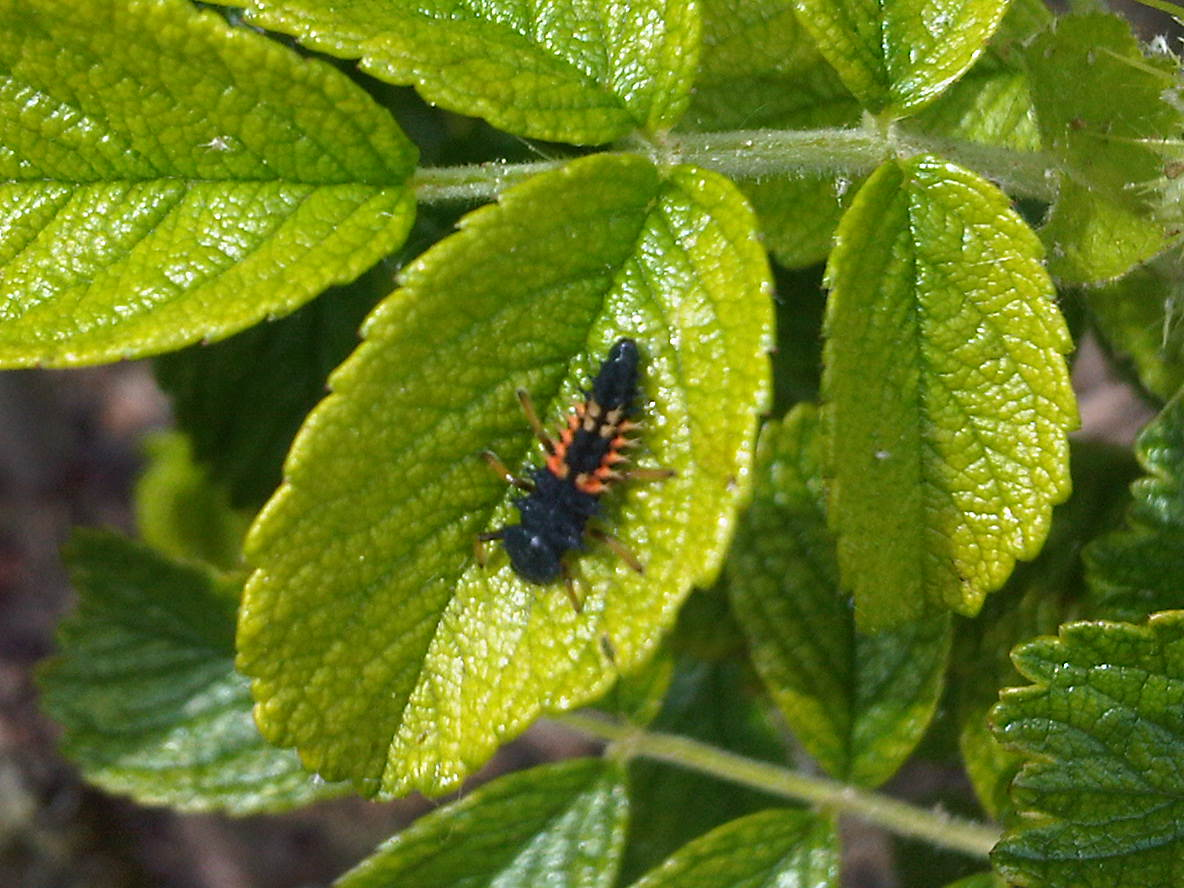 Asian lady beetle, or Japanese ladybug, Harlequin ladybird (Harmonia axyridis) larva in London, England.